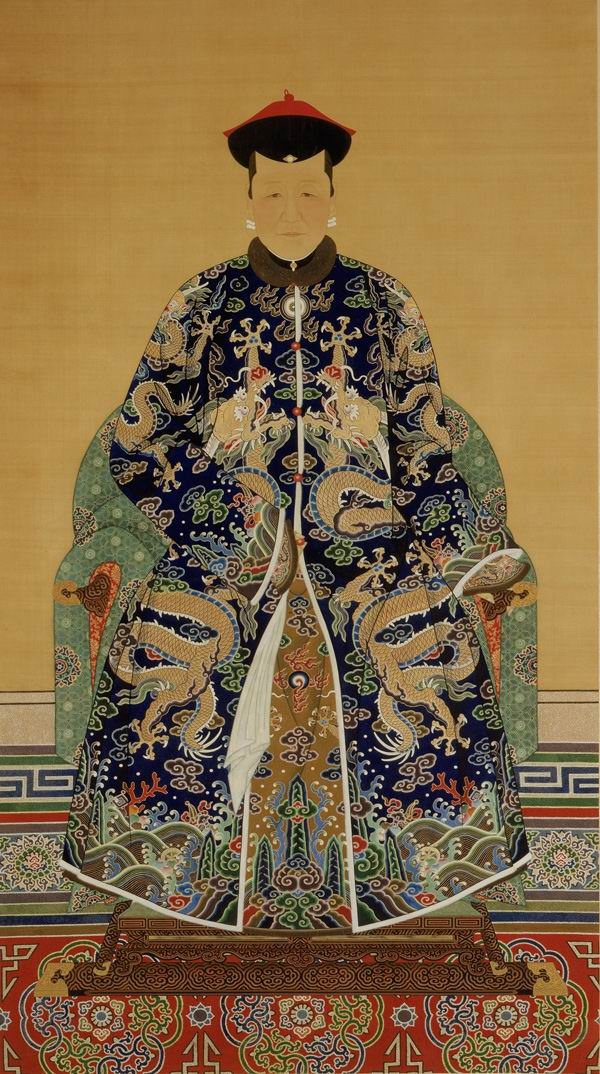 Wife of Lirongbo